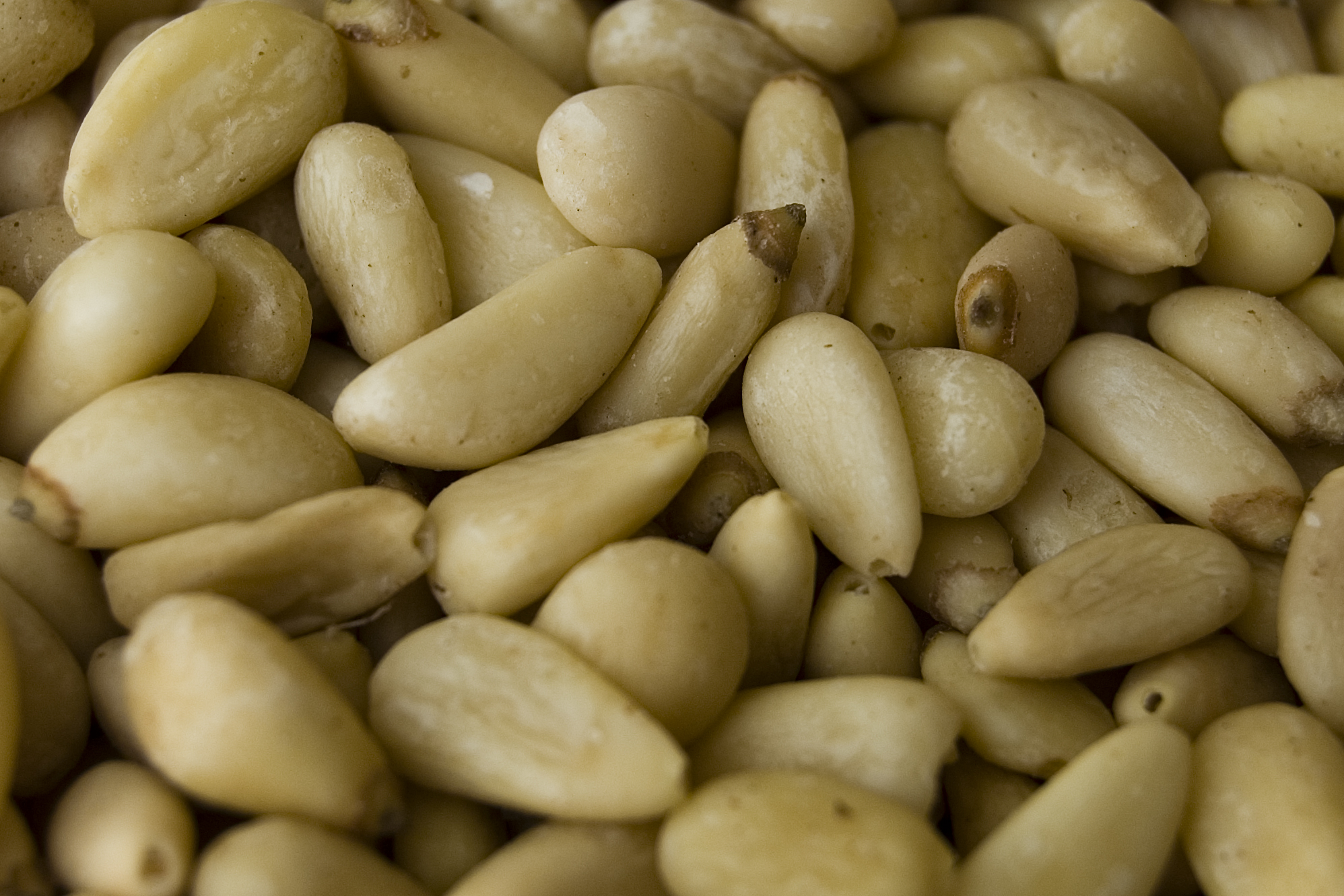 Shelled pine nuts.